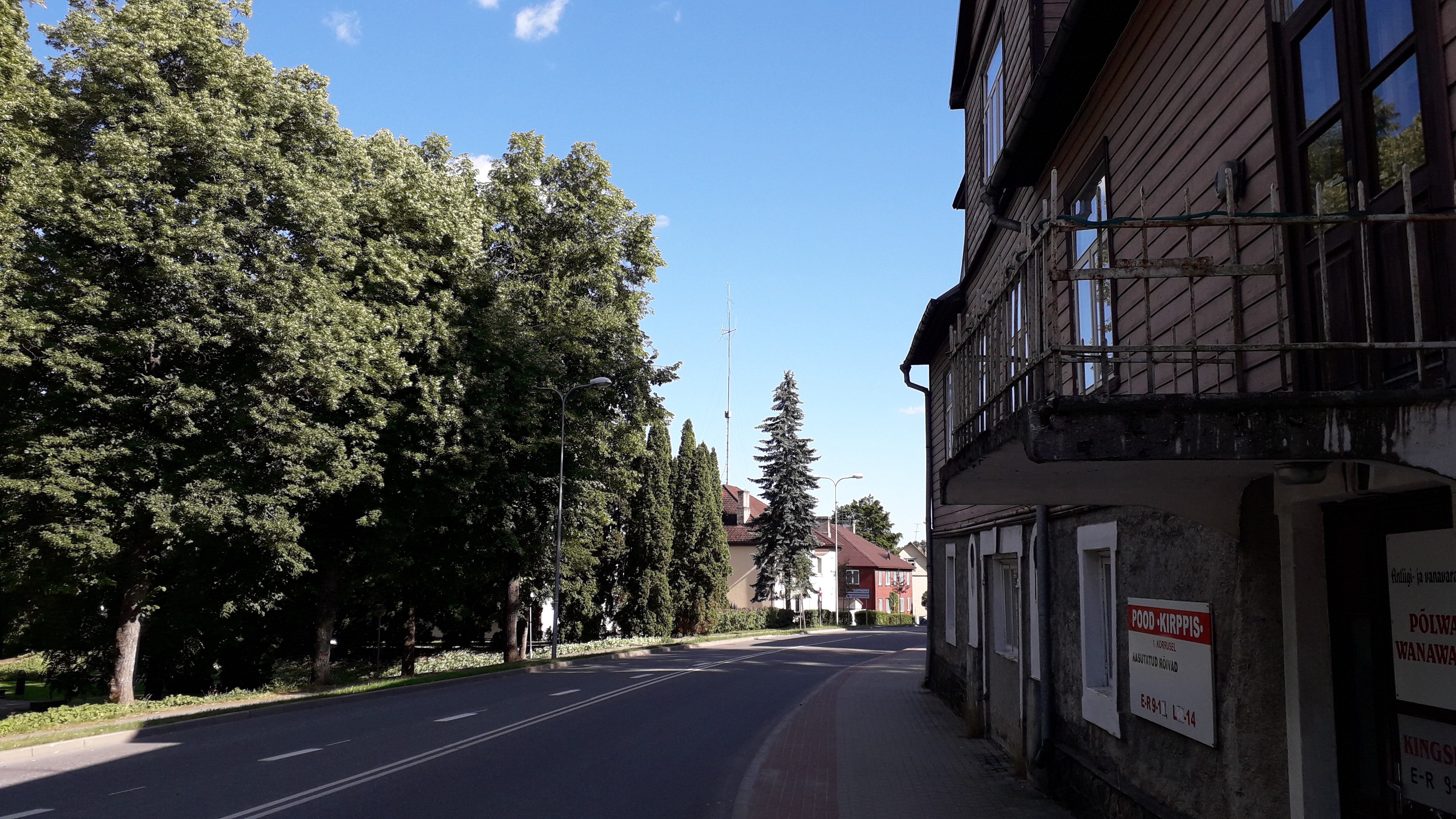 Võru tänav Põlvas